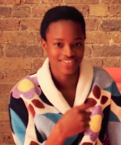 Nigerian fashion model Mayowa Nicholas interviewed by Love magazine. In Bed With is back for issue 17! We get into bed with... Mayowa Nicholas and Ellen Rosa to talk Rihanna & more...